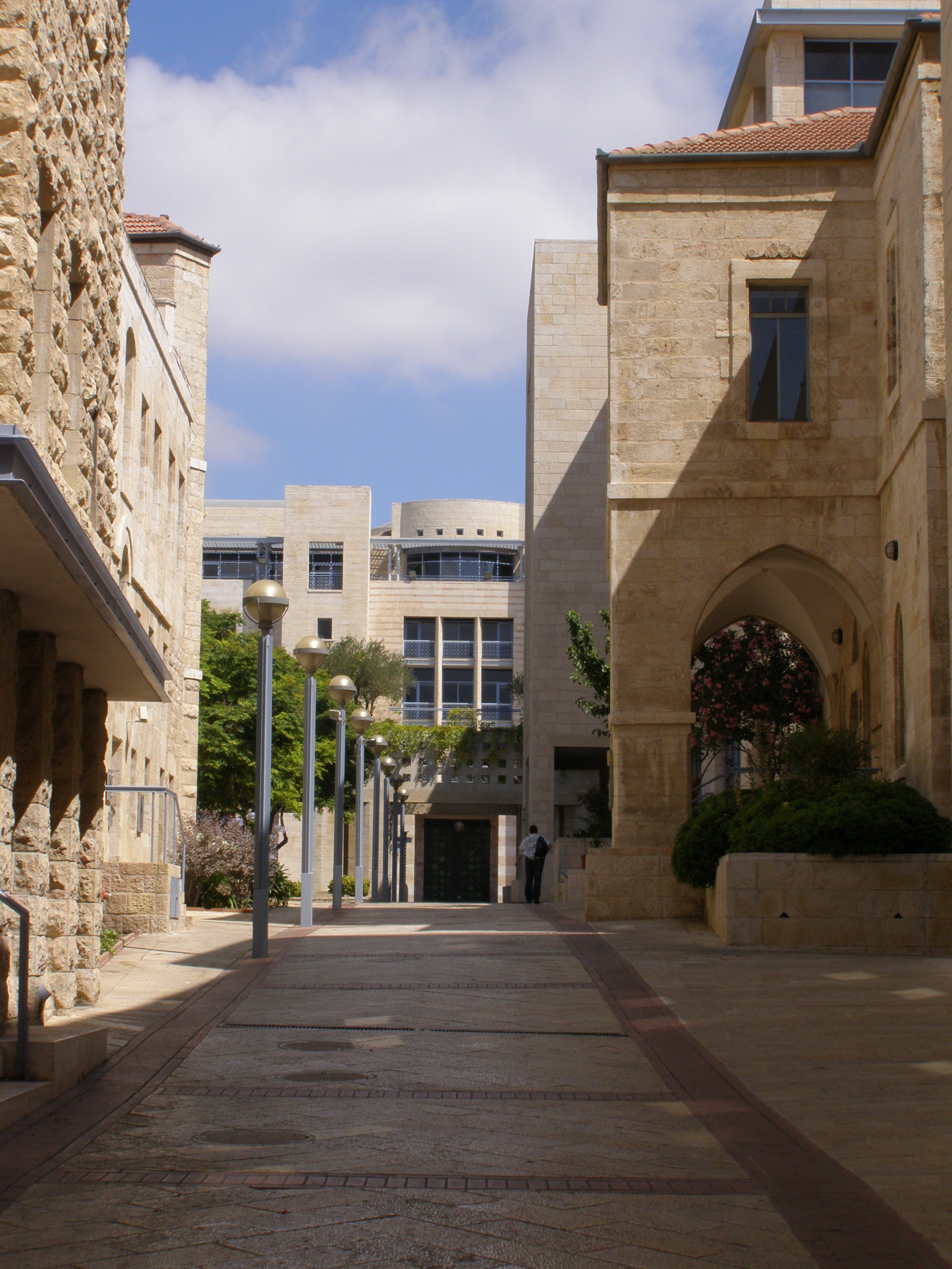 Jerusalem, Safra Square, city hall